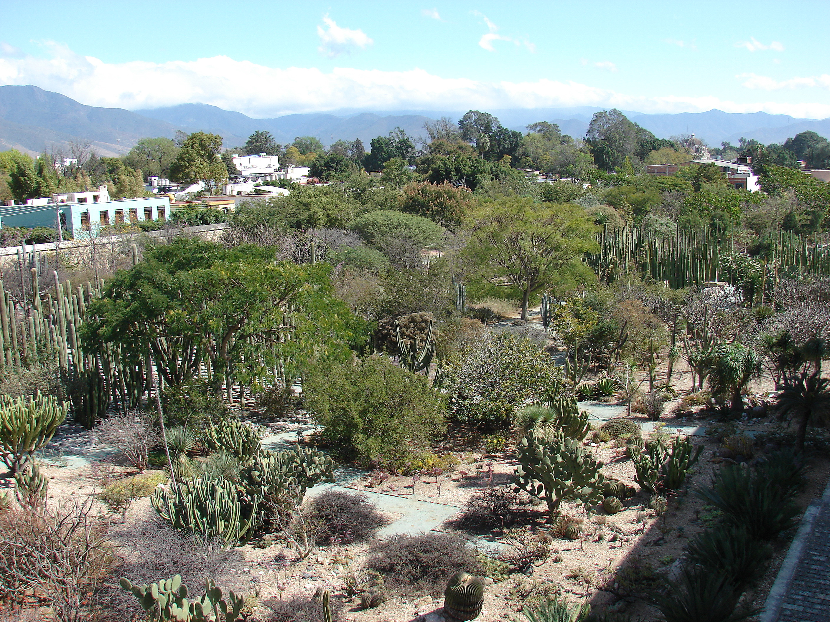 Ethnobotanical Garden of Oaxaca, on the inside ex-convent of Santo Domingo de Guzmán, Oaxaca, Oaxaca, Mexico.